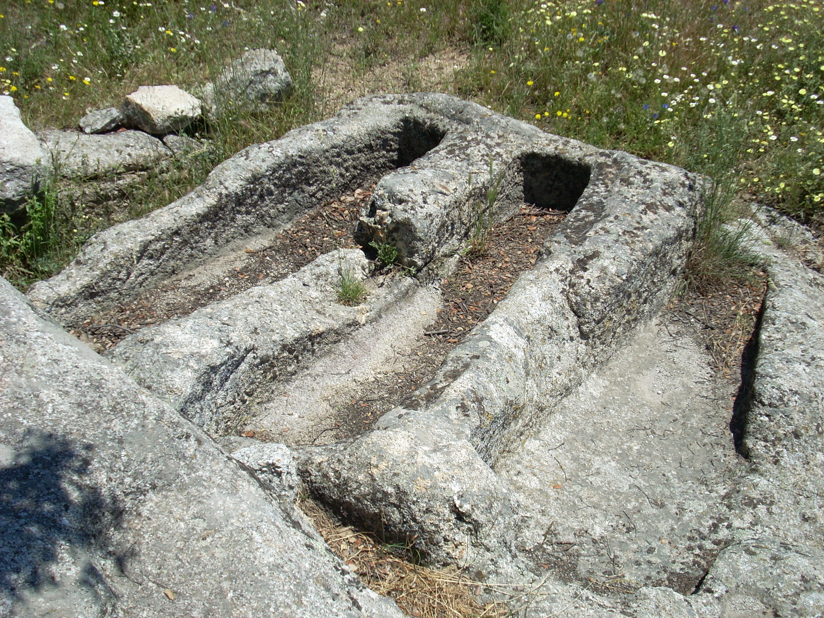 Visigoth tombs near Colmenar Viejo, Madrid